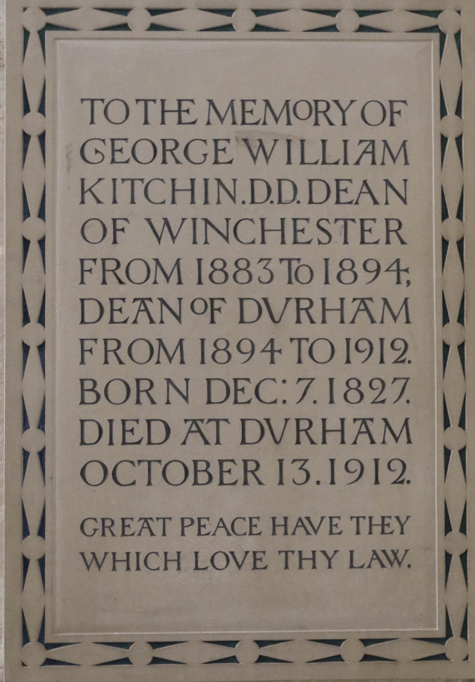 George William Kitchin (7 December 1827 - 13 October 1912) Dean of Winchester 1883-1894 Dean of Durham 1894-1912